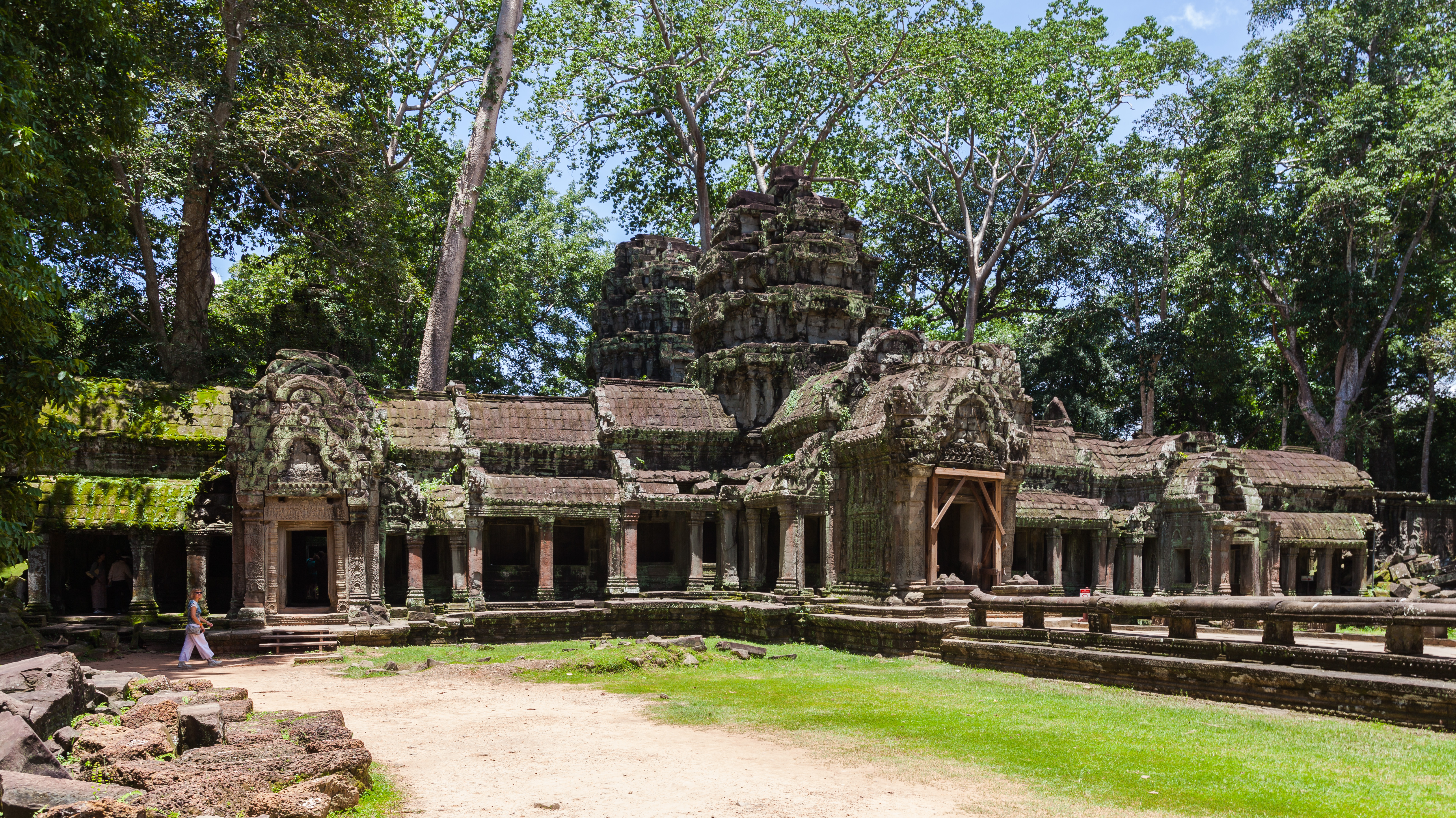 Ta Phrom, Angkor, Cambodia